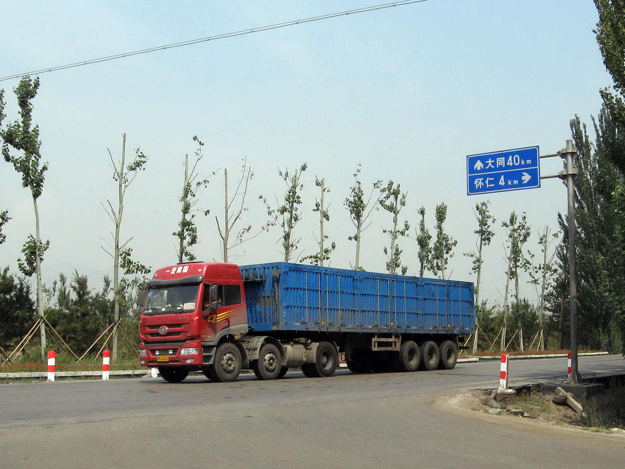 S206, Huairen, Shanxi, China